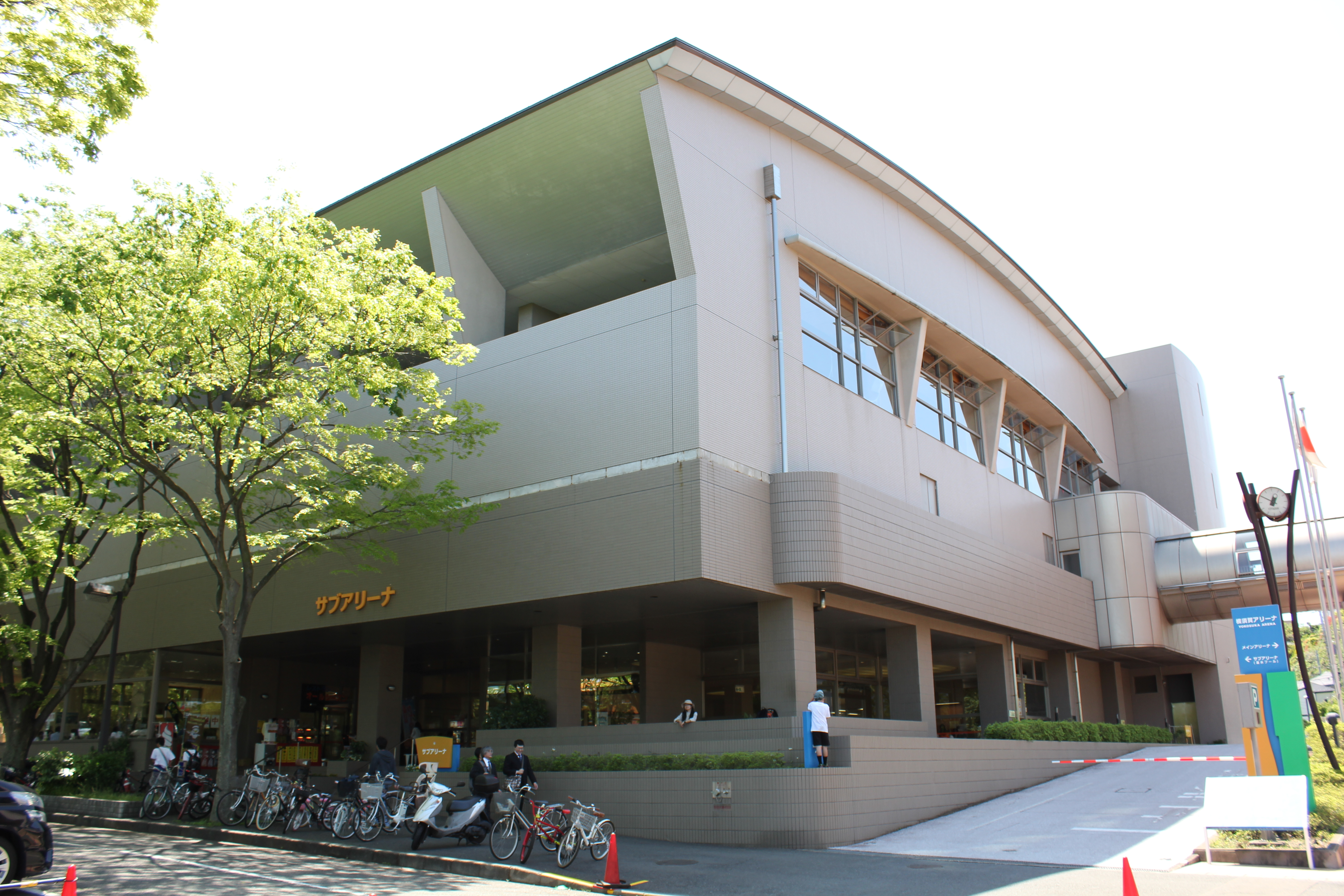 Iriyamazu Park Sub Gymnasium